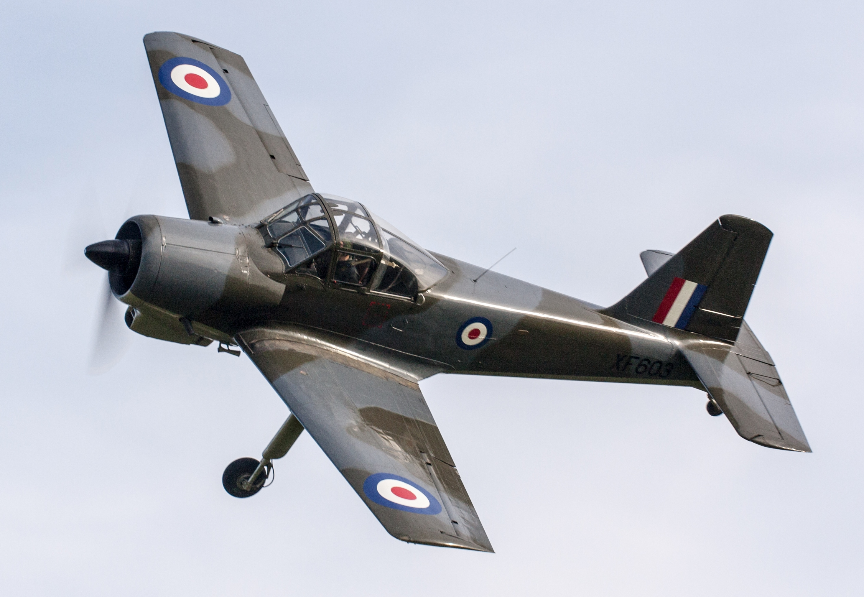 Percival Provost T.1 XF603, a preserved training aircraft of the Shuttleworth Collection during a flying display in October 2012.